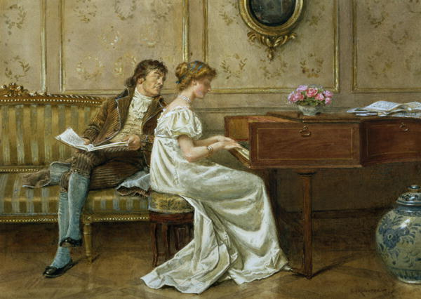 The New Spinet. Late 19th century or early 20th century genre painting of Regency scene.